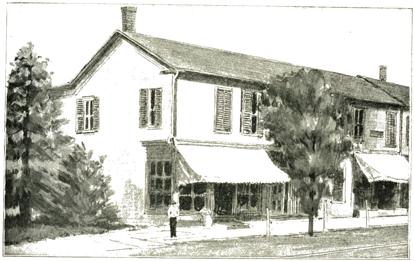 jpg of image on page 25 of File:American Boy's Life of William McKinley.djvu